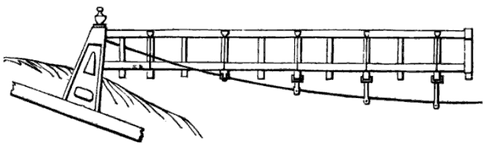 Detail of an underspanned suspension bridge, an early 19th century descendant of the simple suspension bridge. The deck is raised on posts above the main cables.